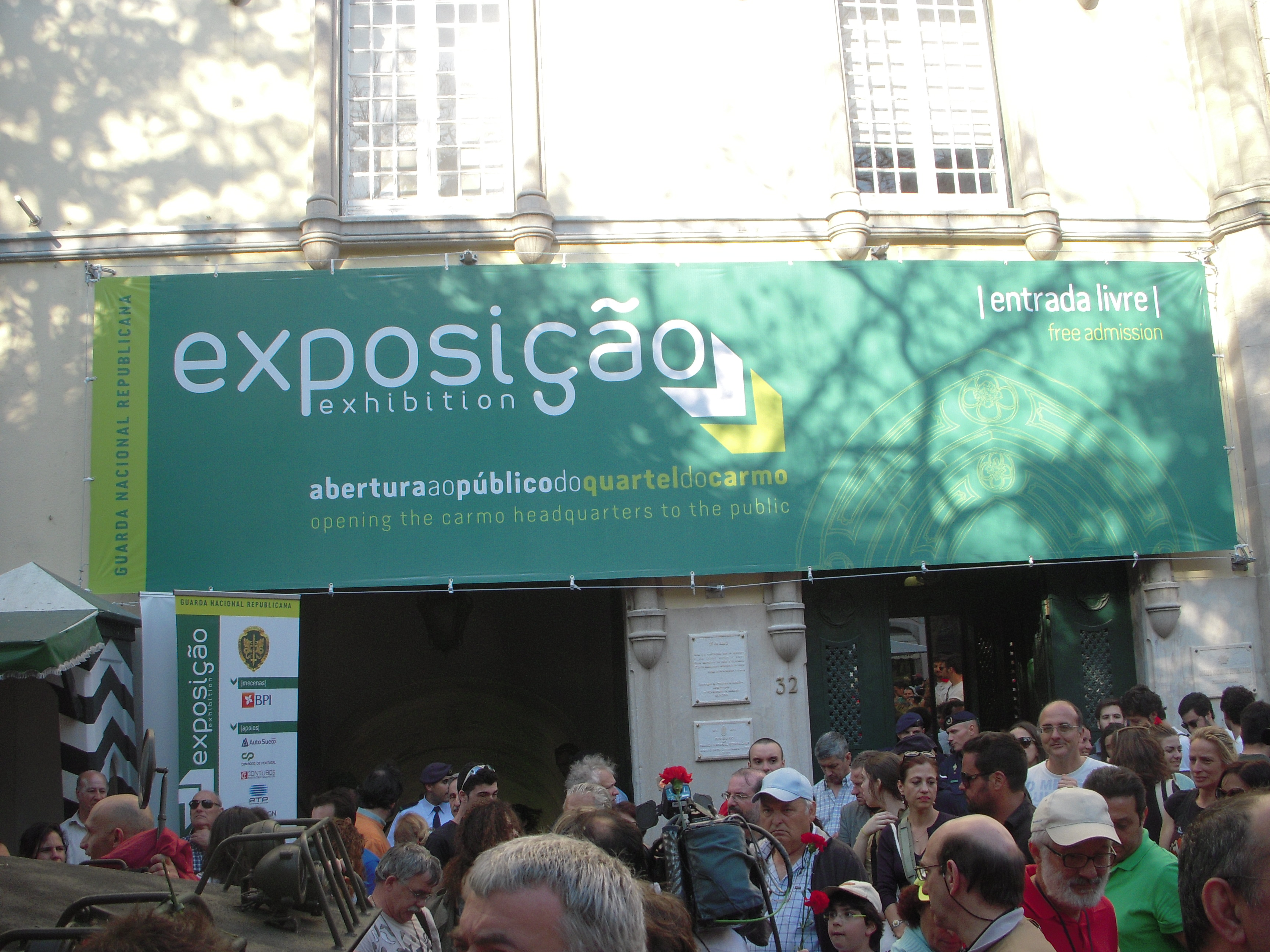 Largo do Carmo in Lisaboa, Portugal, on April 25, 2013, the 39'th anniversary of the Carnation Revolution, that took place on this square in 1974.